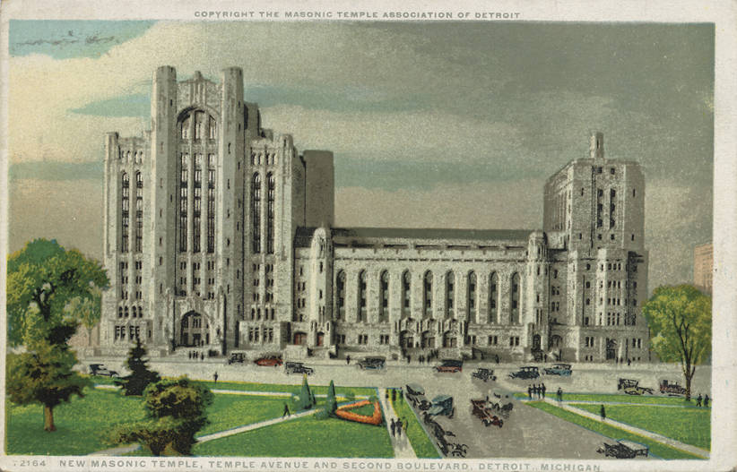 New Masonic Temple, Temple Avenue and Second Boulevard